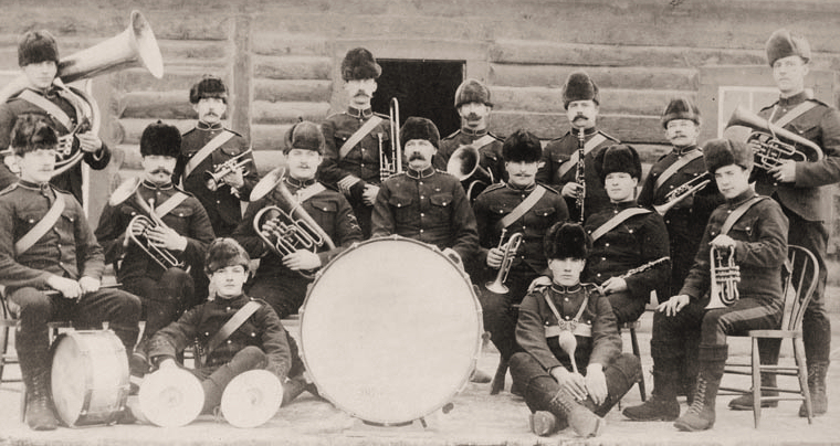 Canada. Mounties Band, Yukon, 1901